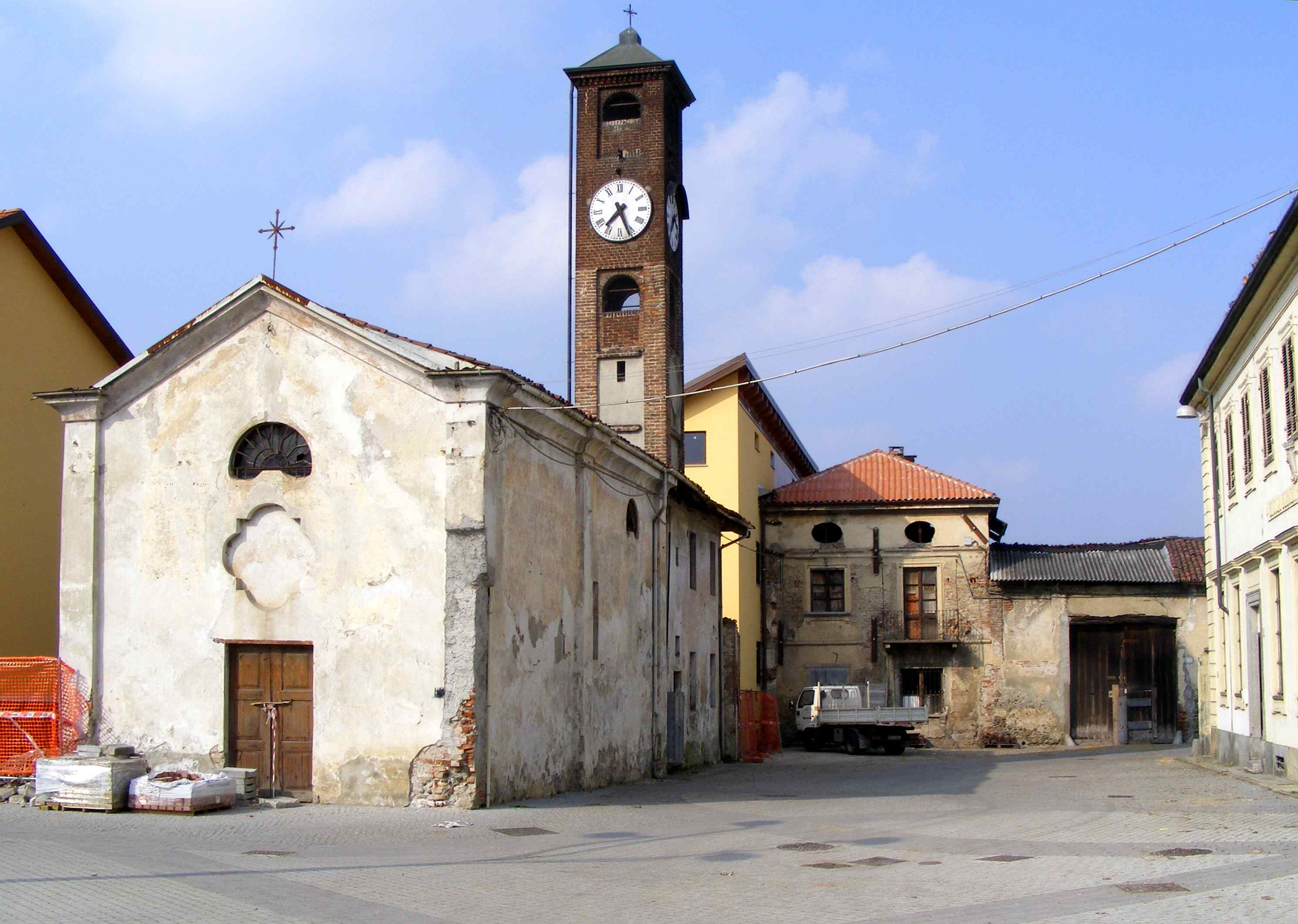 Villaretto (Turin, Italy): the old church